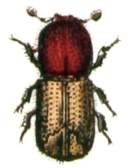 Ips typographus, from Calwer's Käferbuch, Table 29, Picture 20. Taxonomy was updated to 2008, using mostly the sites Fauna Europaea and BioLib. Please contact Sarefo if the determination is wrong!